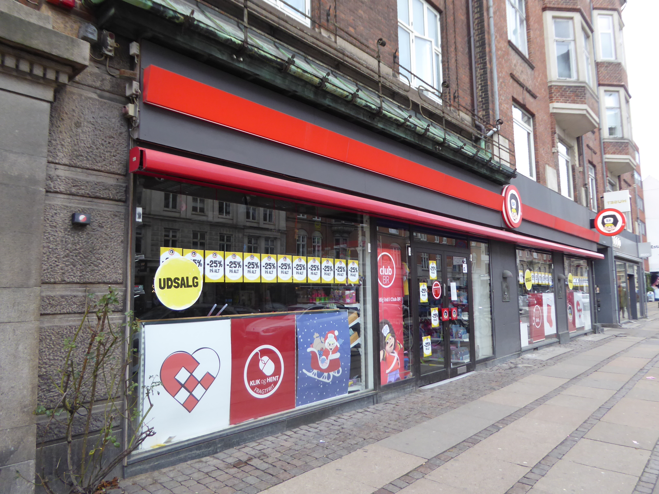 Branch of the toy shop chain BR Legetøj at Østerbrogade in Østerbro in Copenhagen. The company behind the chain went bankrupt at 28 December 2018 and most branches like this were closed.